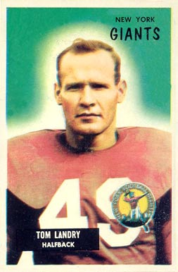 American football player Tom Landry on a 1955 Bowman card.